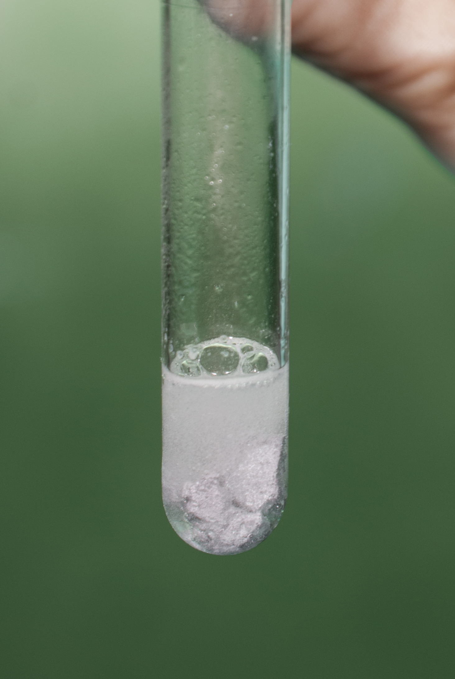 Tin reacts with hydrochloric acid.